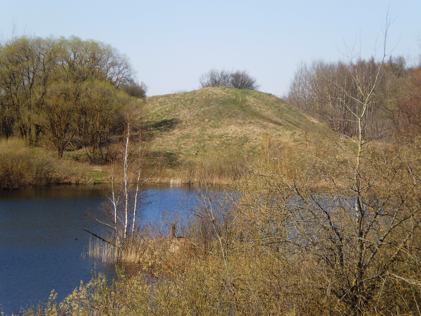 Sangailai hillfort, Kėdainiai dst., Lithuania